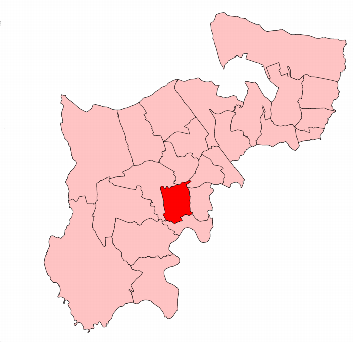 A map of Ealing East constituency within Middlesex, as it existed from 1945 to 1950.